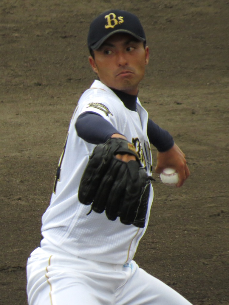 Shinya Nakayama, pitcher of the Orix Buffaloes, at Tondabayashi Buffaloes Stadium.